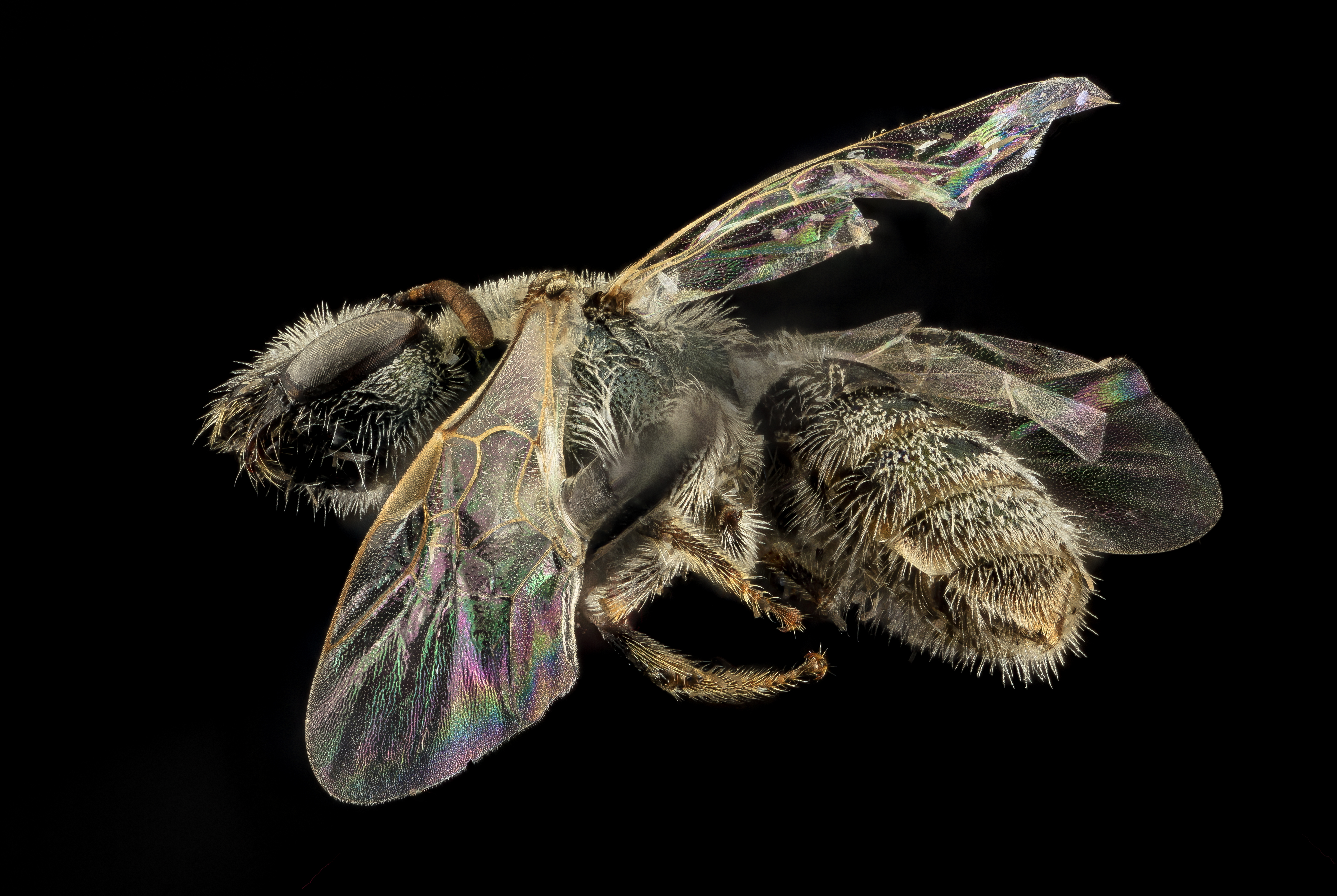 Even more Lasioglossum specimens, this one Lasioglossum albohirum, also from the fantastic be world of Fossil Butte National Monument in Wyoming. Photographed by Brooke Alexander. 03:02, 11 April 2016 (UTC)03:02, 11 April 2016 (UTC) 0 03:02, 11 April 2016 (UTC)03:02, 11 April 2016 (UTC) All photographs are public domain, feel free to download and use as you wish. Photography Information: Canon Mark II 5D, Zerene Stacker, Stackshot Sled, 65mm Canon MP-E 1-5X macro lens, Twin Macro Flash in Styrofoam Cooler, F5.0, ISO 100, Shutter Speed 200 Beauty is truth, truth beauty - that is all Ye know on earth and all ye need to know " Ode on a Grecian Urn" John Keats You can also follow us on Instagram account USGSBIML Want some Useful Links to the Techniques We Use? Well now here you go Citizen: Art Photo Book: Bees: An Up-Close Look at Pollinators Around the World Basic USGSBIML set up: USGSBIML Photoshopping Technique: Note that we now have added using the burn tool at 50% opacity set to shadows to clean up the halos that bleed into the black background from "hot" color sections of the picture. PDF of Basic USGSBIML Photography Set Up: ftp://ftpext.usgs.gov/pub/er/md/laurel/Droege/How%20to%20Take%20MacroPhotographs%20of%20Insects%20BIML%20Lab2.pdf Google Hangout Demonstration of Techniques: or Excellent Technical Form on Stacking: Contact information: Sam Droege 301 497 5840